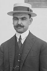 Aarón Sáenz Garza and family aboard ship in 1922